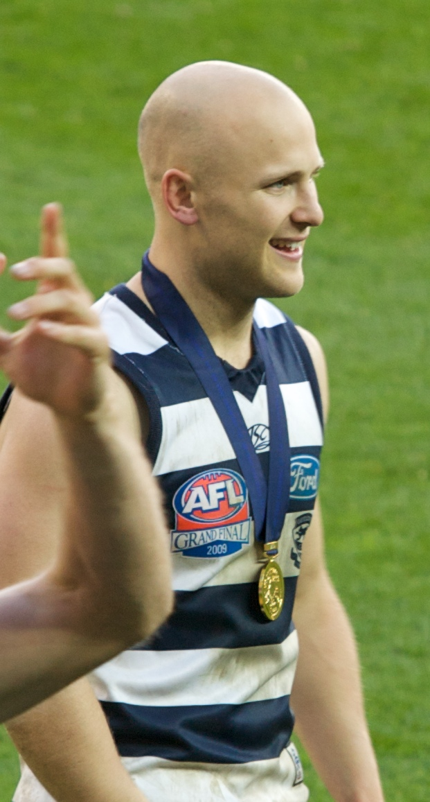 Gary Ablett Jr. following the medal presentation event after the 2009 AFL Grand Final, which Geelong were the victors.